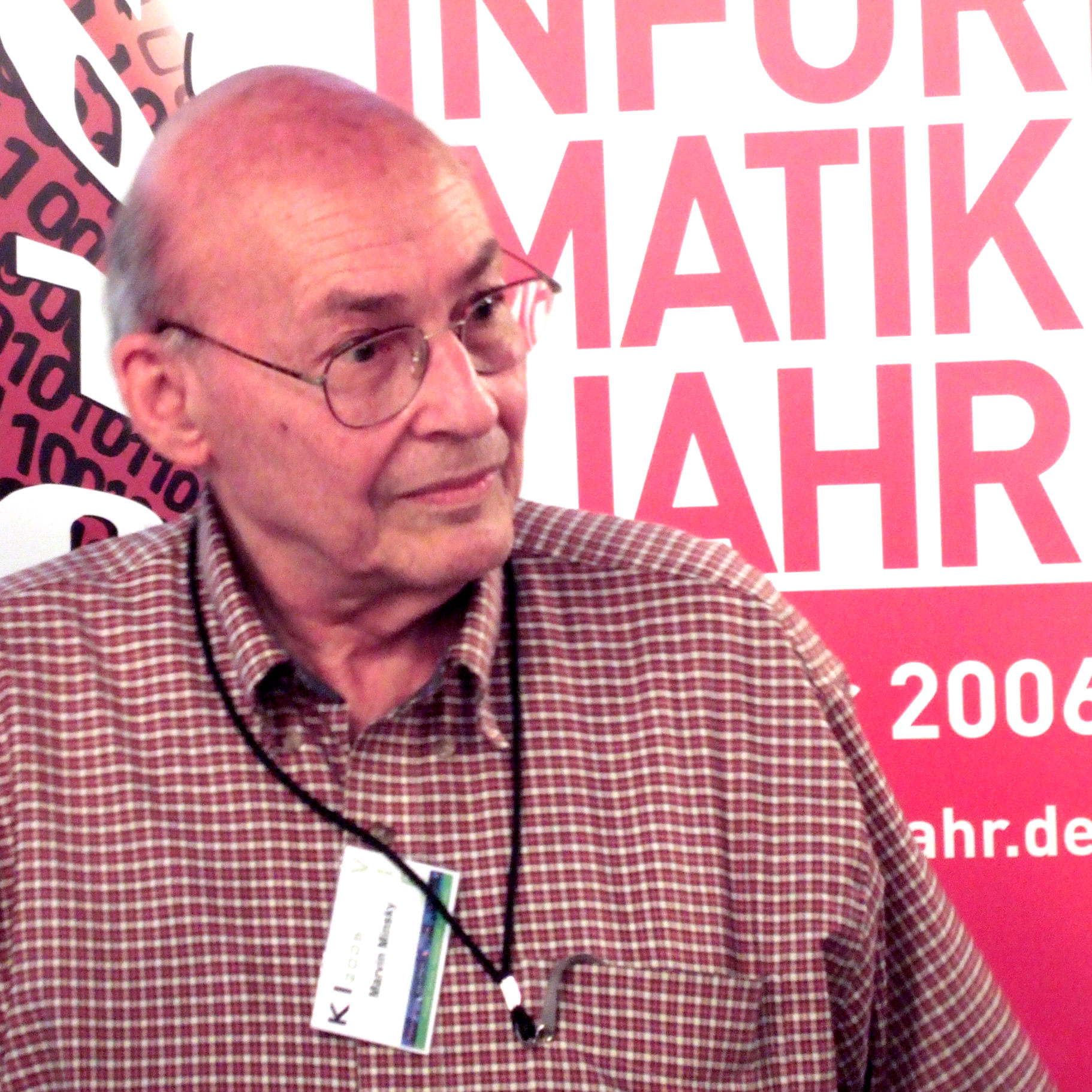 Marvin Minsky at the KI 2006 artificial intelligence conference in Bremen